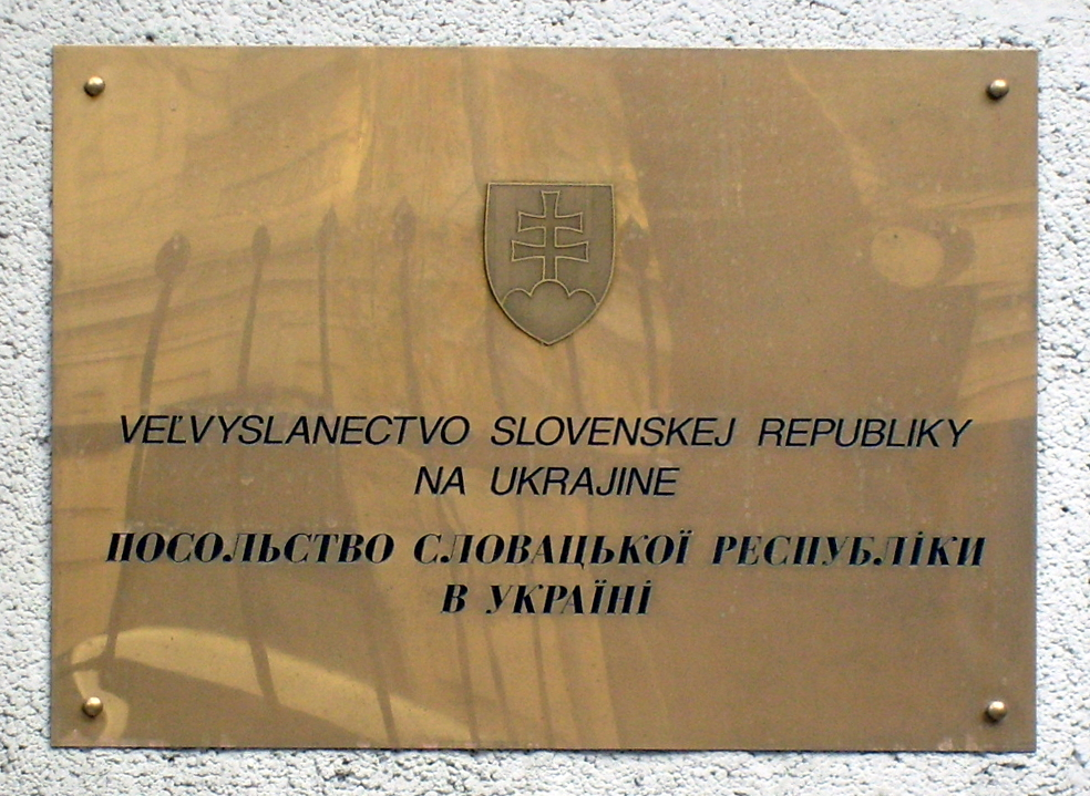 Plaque on the Embassy of the Slovak Republic in Ukraine. Address: 34 Yaroslavov Val Street, Kiev.